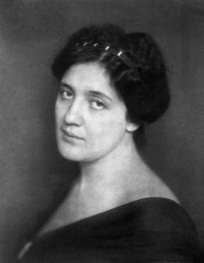 Portrait of Melanie Klein, head and shoulders, aged about 30. Budapest.